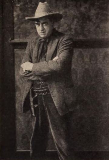 Still from the American western film Sunset Jones (1921) with James Gordon, on page 33 of the March 5, 1921 Exhibitors Herald.